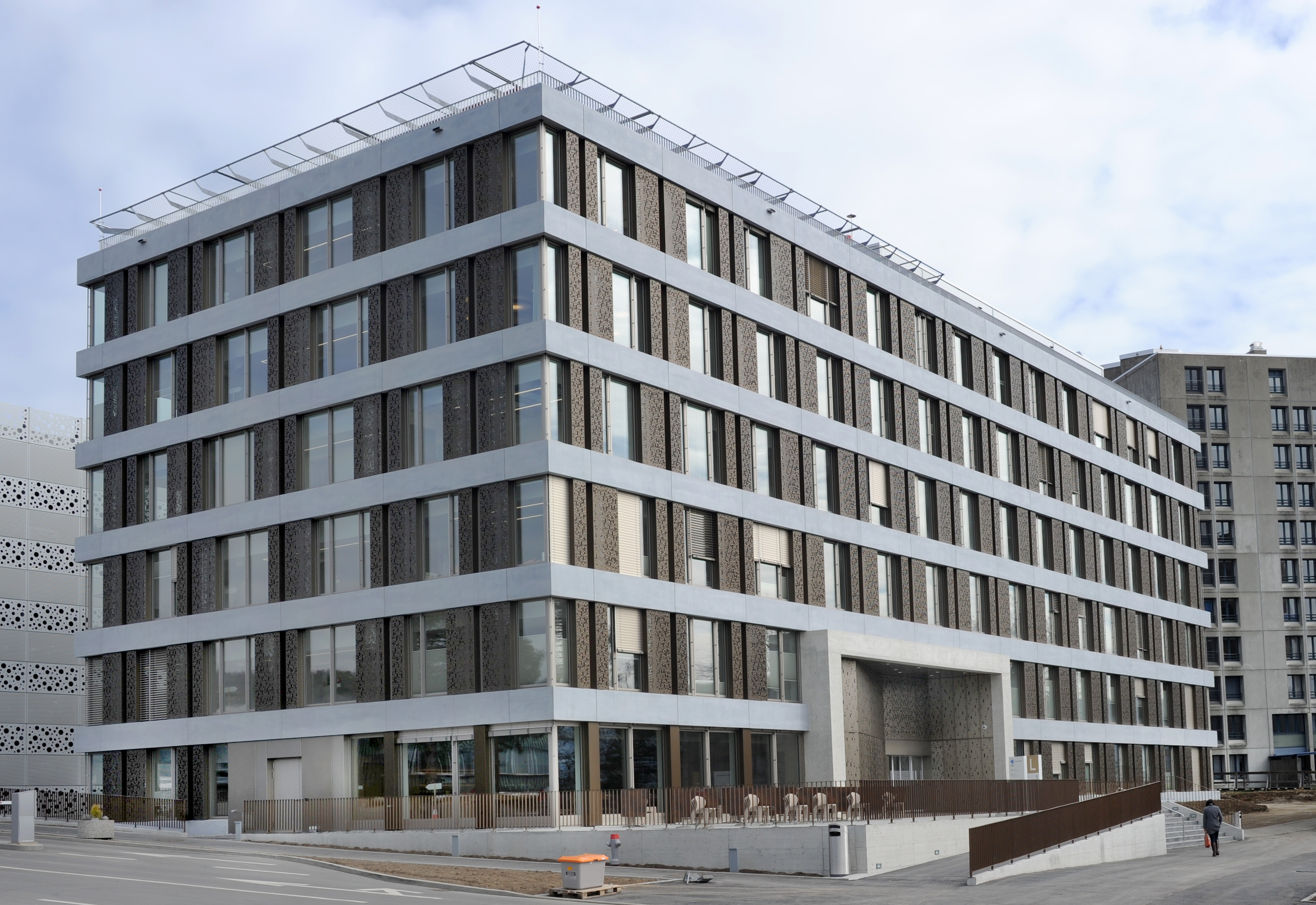 KSB Partnerhaus